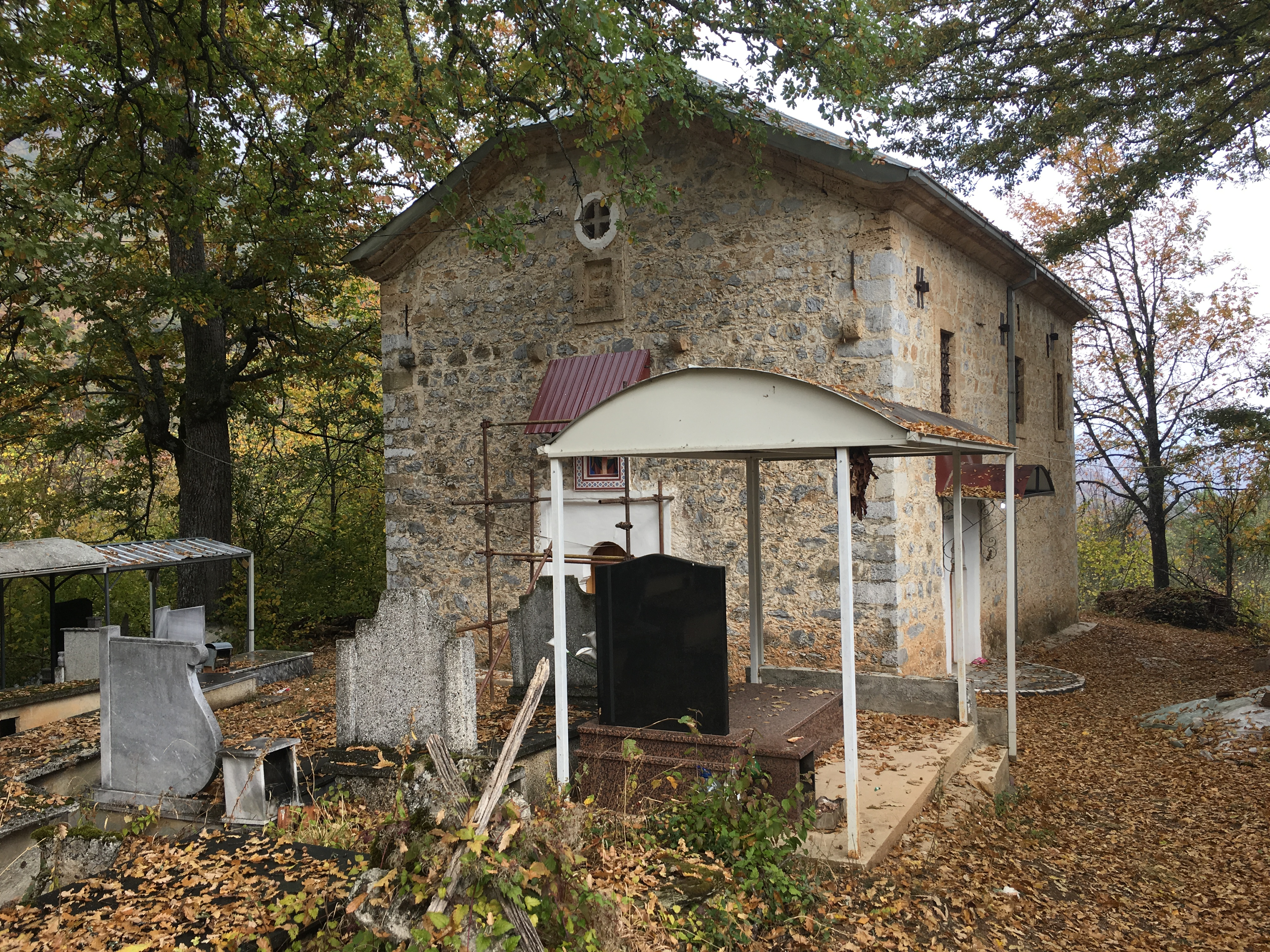 Wikiexpedition to Kopačka